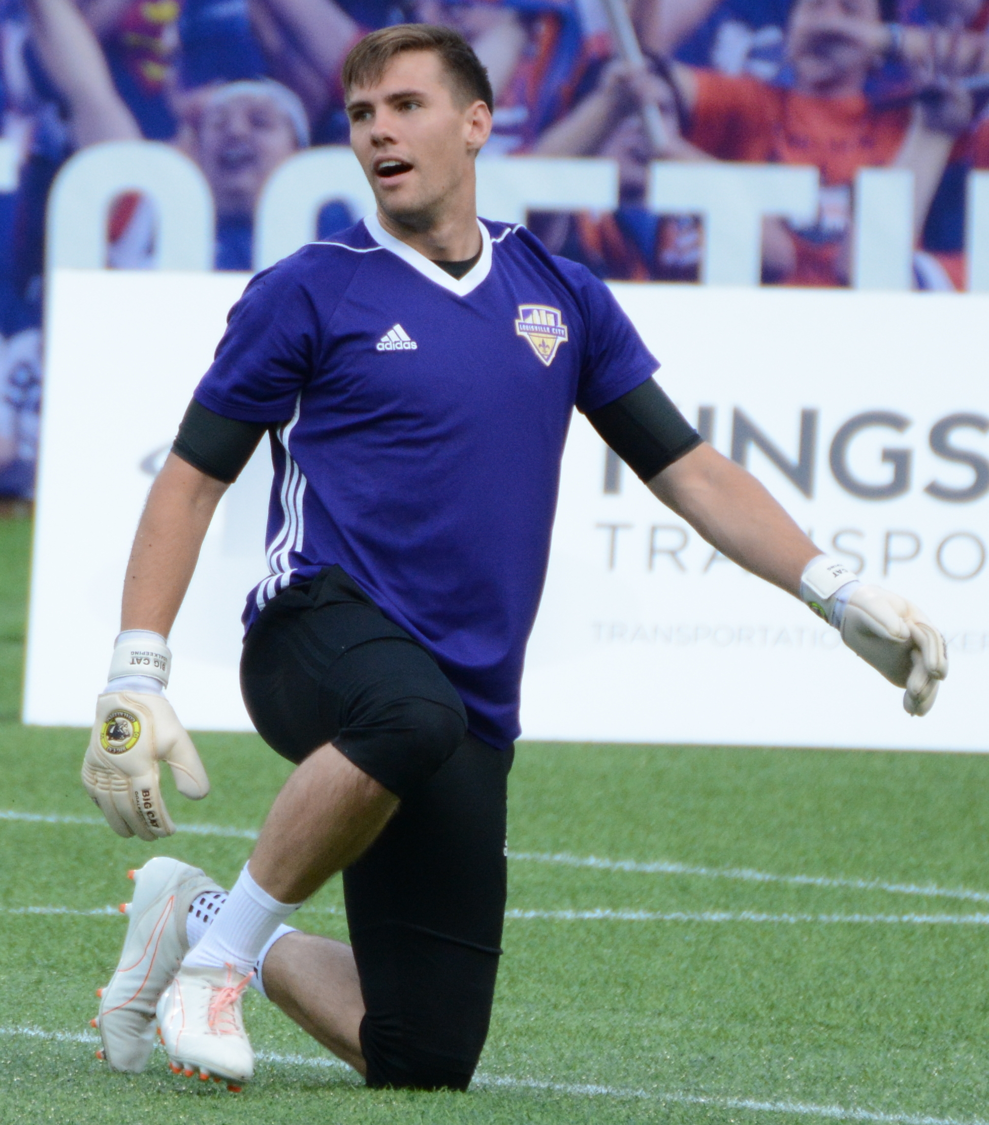 Tim Dobrowolski, a goalkeeper for United Soccer League side Louisville City FC, making practice saves during pre-match warmups. Taken at a 2017 U.S. Open Cup match between FC Cincinnati and Louisville City at Nippert Stadium in Cincinnati, Ohio on May 31, 2017.